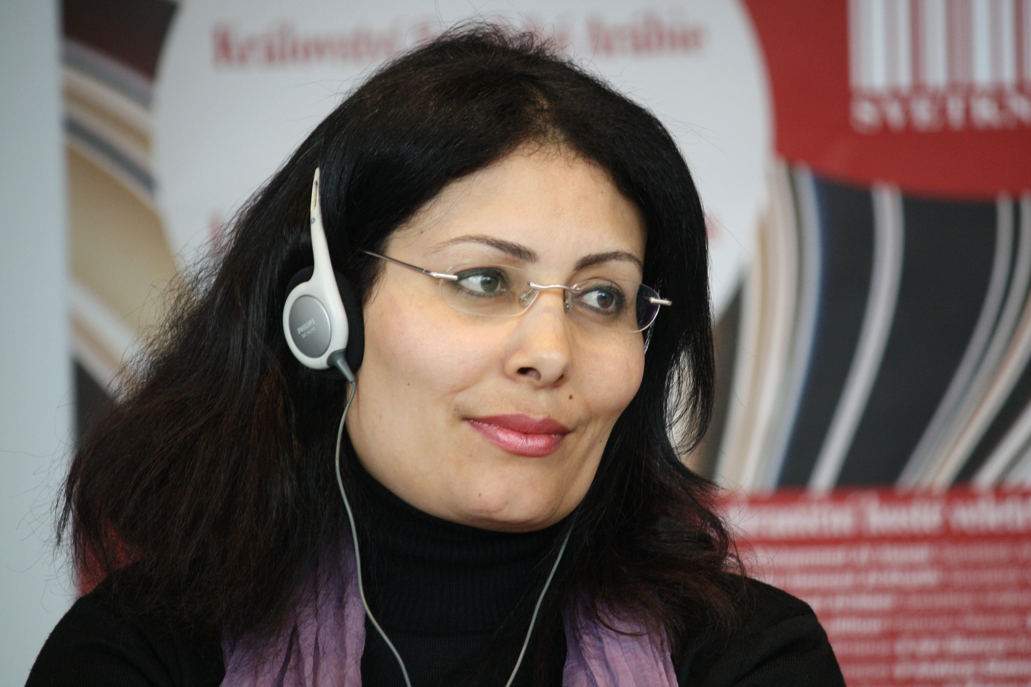 Mansoura Ez-Eldin on 17th International Book Fair and Literary Festival Book World Prague Personality rights warningAlthough this work is freely licensed or in the public domain, the person(s) shown may have rights that legally restrict certain re-uses unless those depicted consent to such uses. In these cases, a model release or other evidence of consent could protect you from infringement claims.